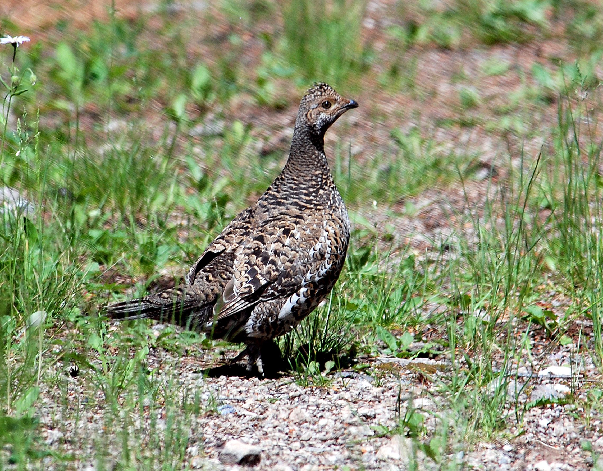 Dendragapus obscurus, Alamo Boundary Trail, Bandelier National Monument, New Mexico, USA.